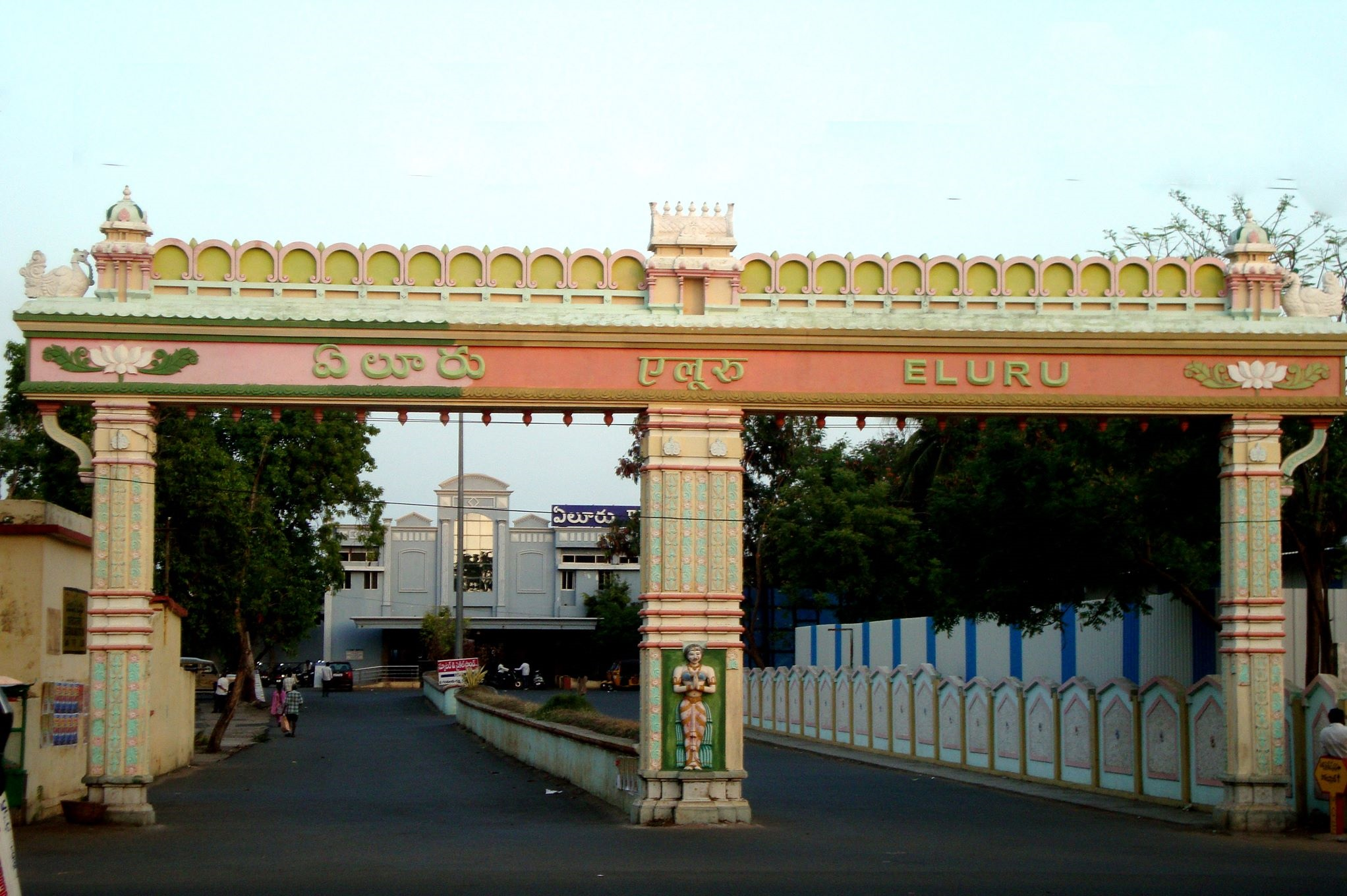 Eluru Railway Station